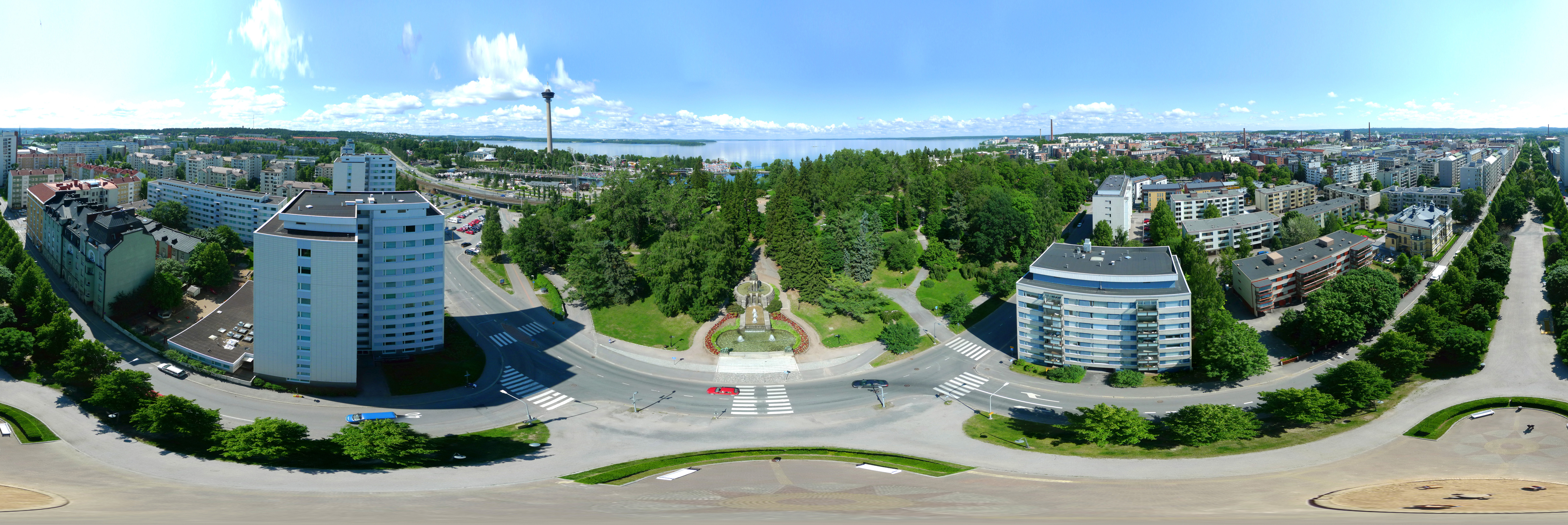 360 degree panorama from Hämeenpuisto, Tampere